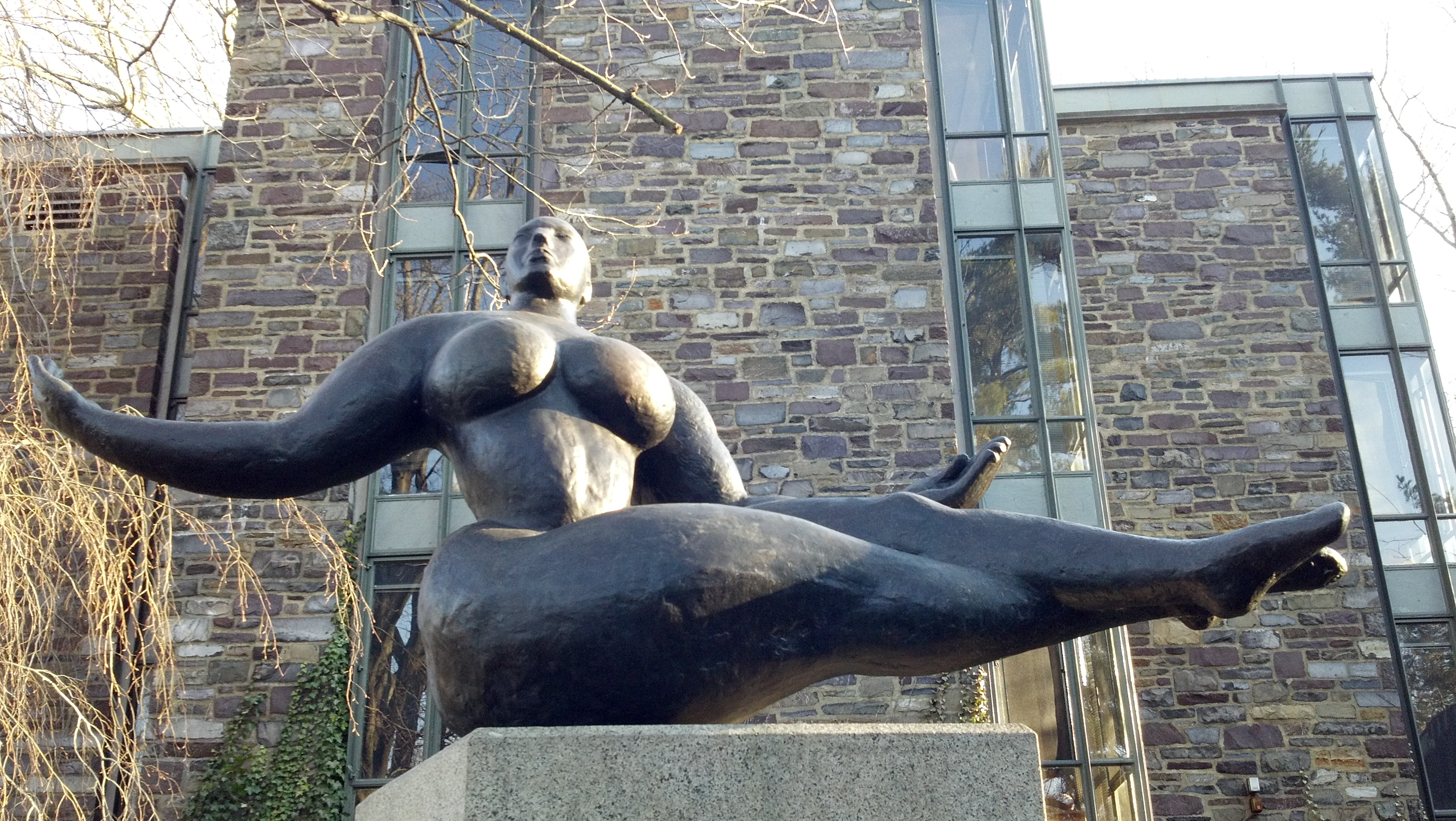 Floating Figure 1935 by Gaston Lachaise in courtyard at Princeton University Graduate College, Princeton, NJ [1]